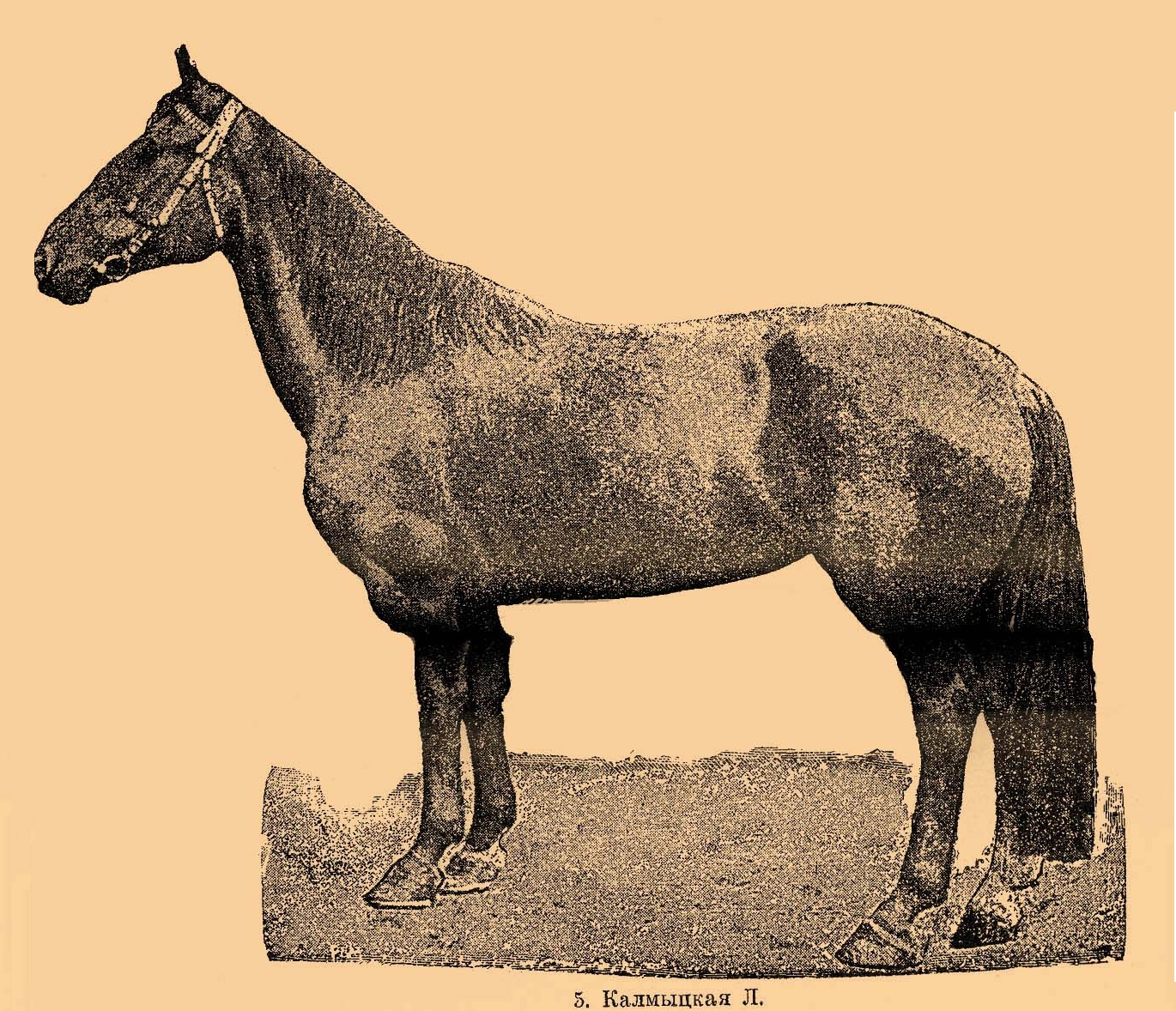 Kalmyk horse breed - Illustration from Brockhaus and Efron Encyclopedic Dictionary (1890—1907)